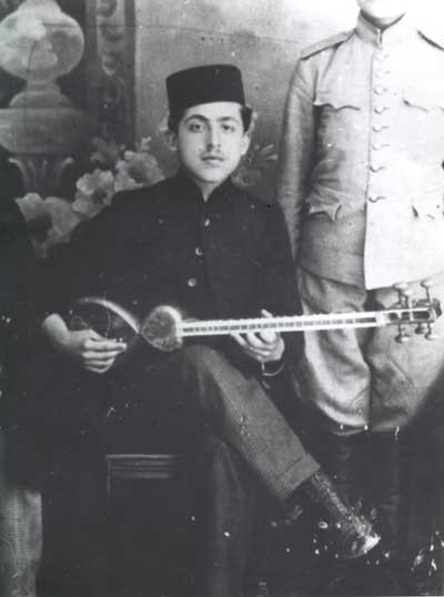 MortezÄ Ney'dÄ voud (1900-1990), distinguished musician of Classical Persian music.